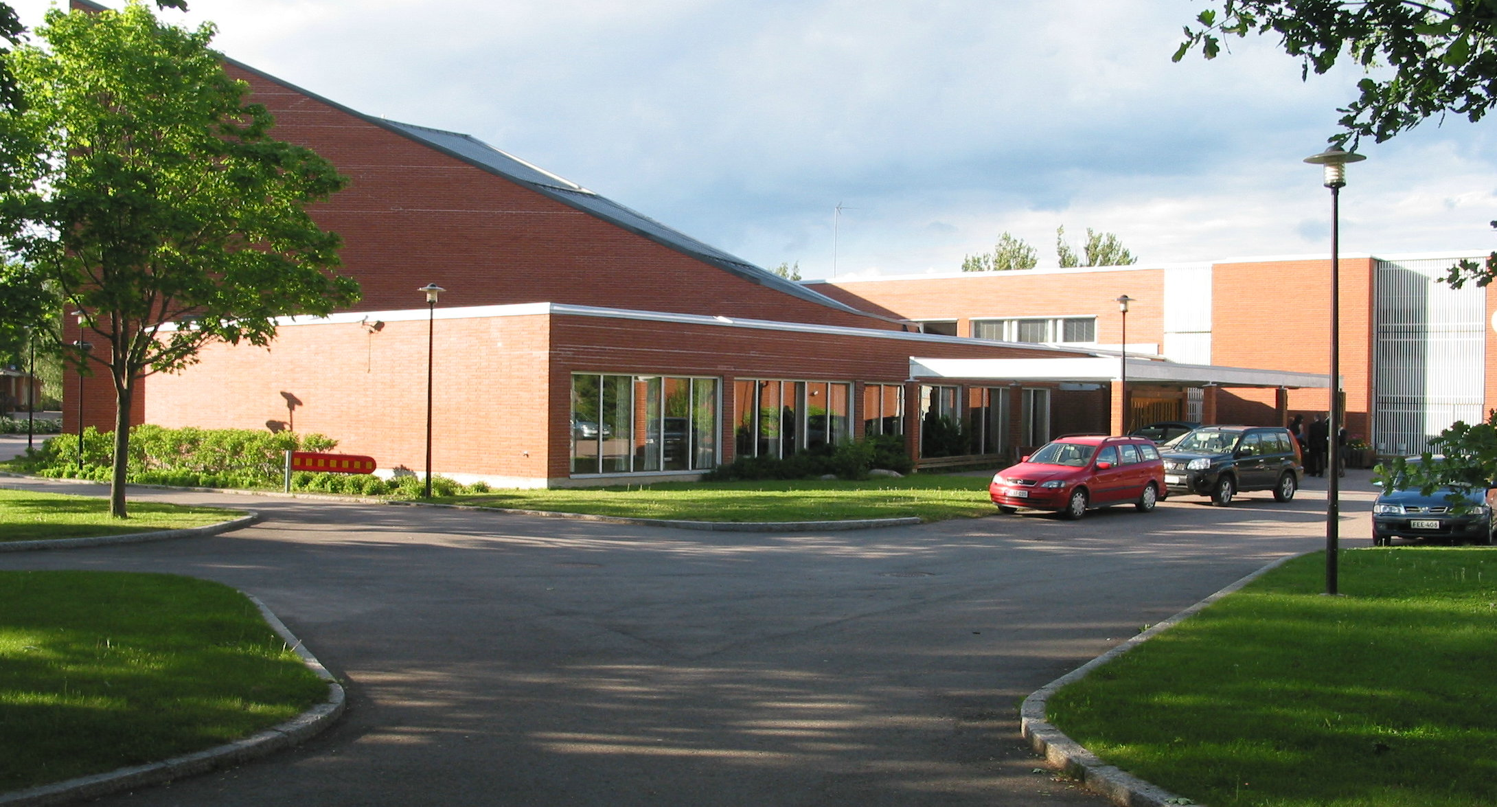 Laurentius Hall, and Anttila school, Lohja Finland